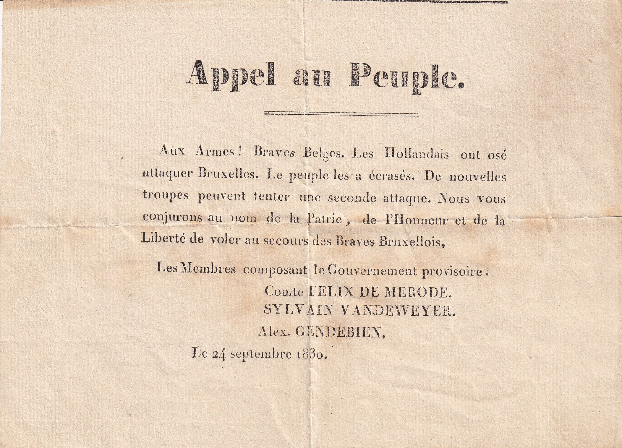 Political tract from the Belgian revolution of 1830